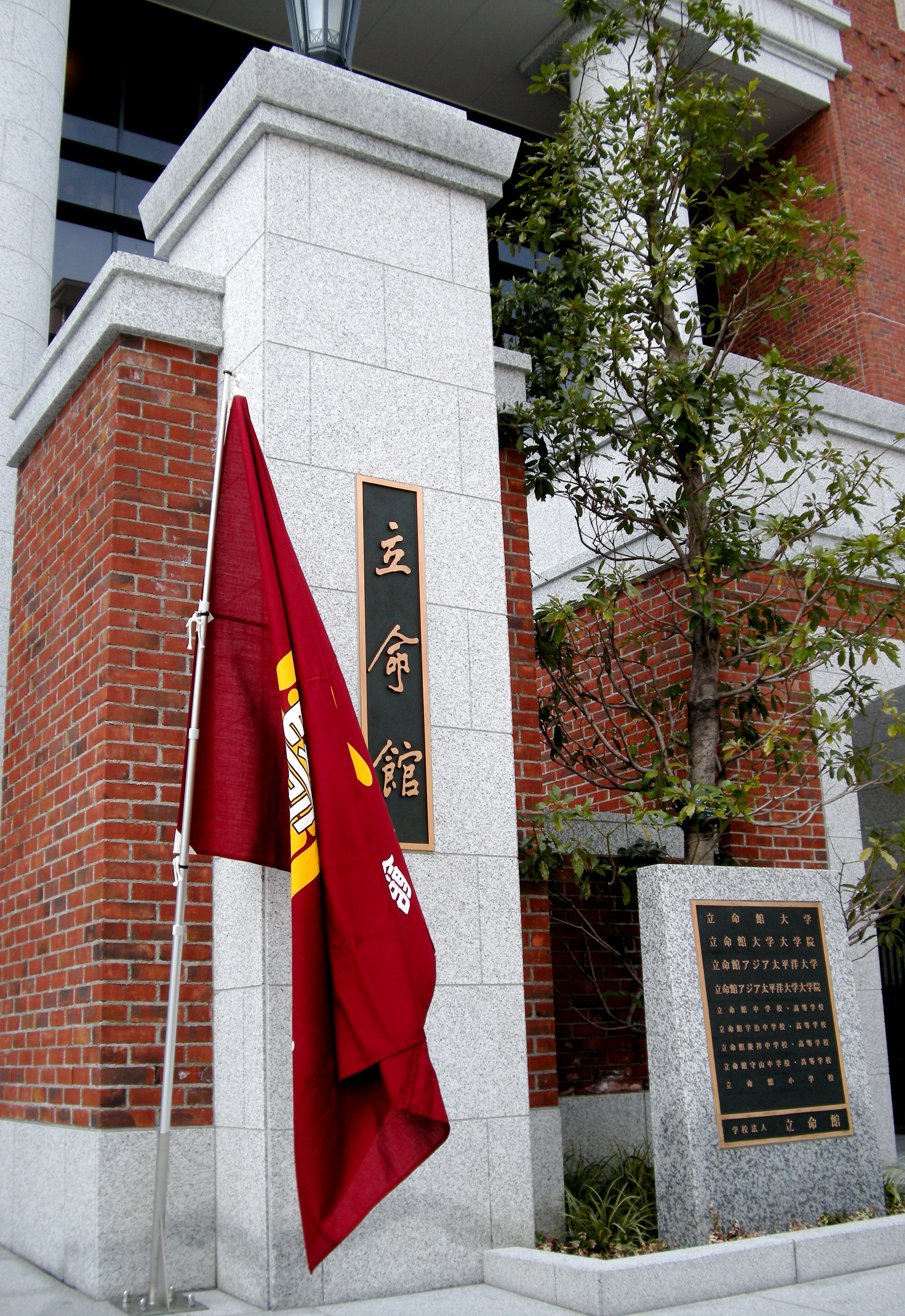 Main Gate to HQs of Ritsumeikan (Kyoto, Japan)